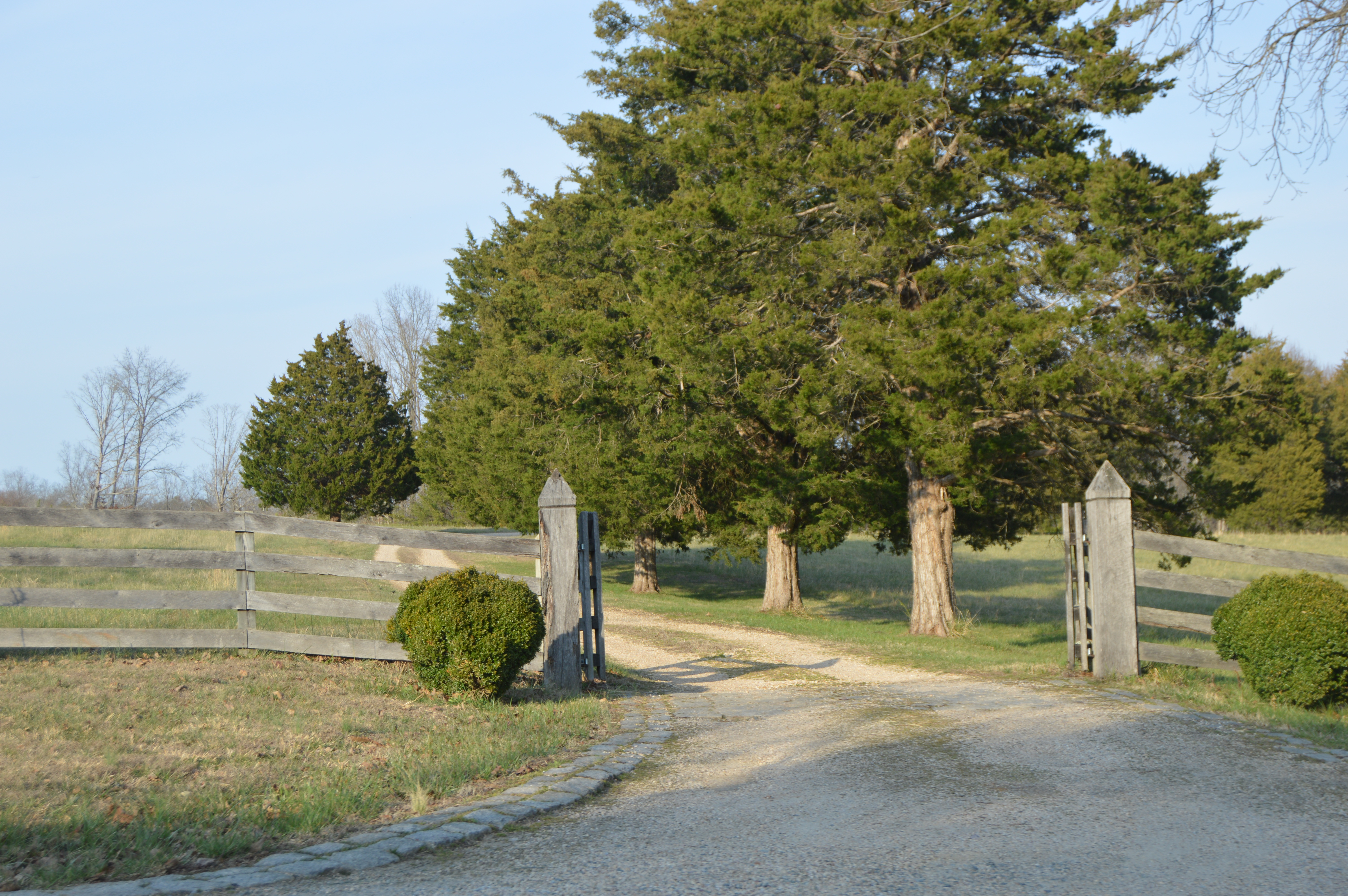 Entrance to the driveway at the Blenheim estate, located off Nowlin Mill Road between Red Oak Mountain and the Falling River in Campbell County, Virginia, United States. The estate is listed on the National Register of Historic Places.